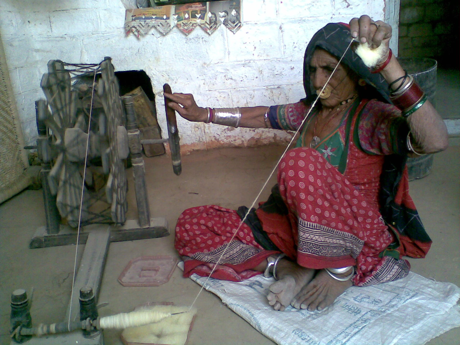 Spinning